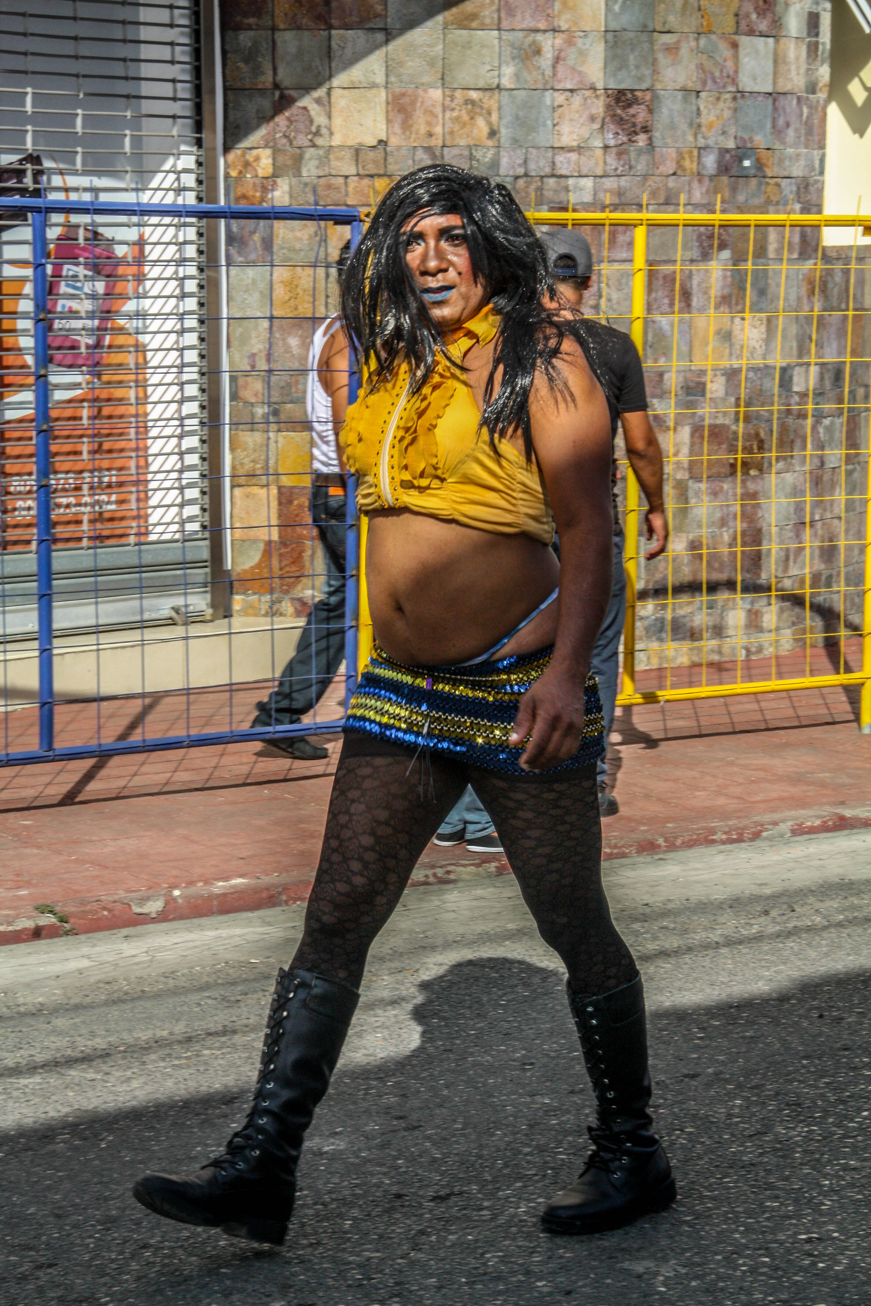 Carnival in Concepción de La Vega, Dominican Republic